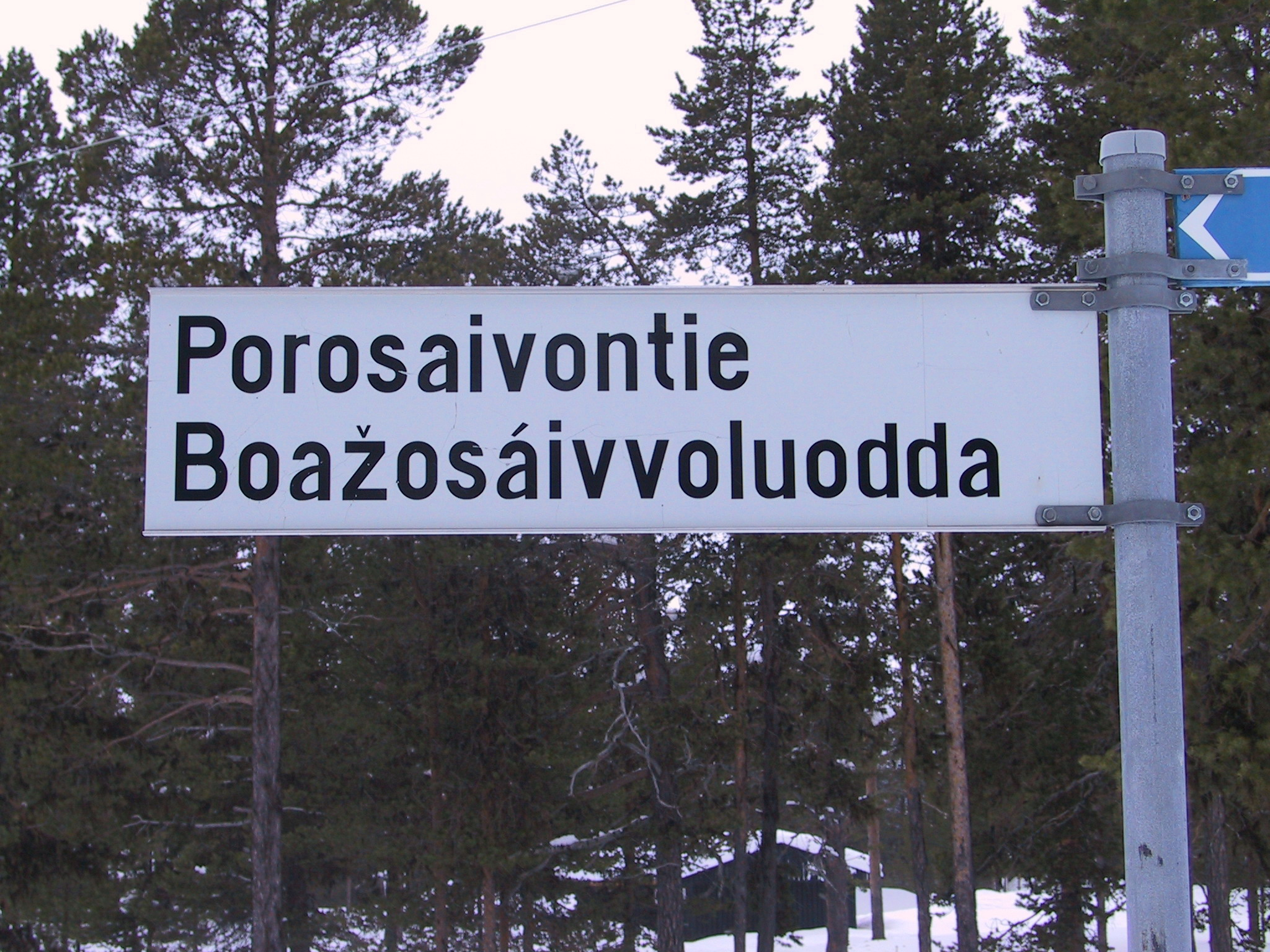 Finnish–Northern Sami language street sign in Enontekiö, Finland